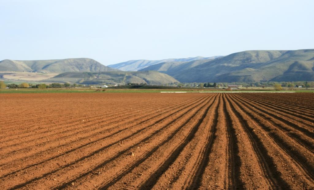 The Yakima River Canyon water gap as seen from the north near Ellensburg, Washington in Washington State of the United States of America.